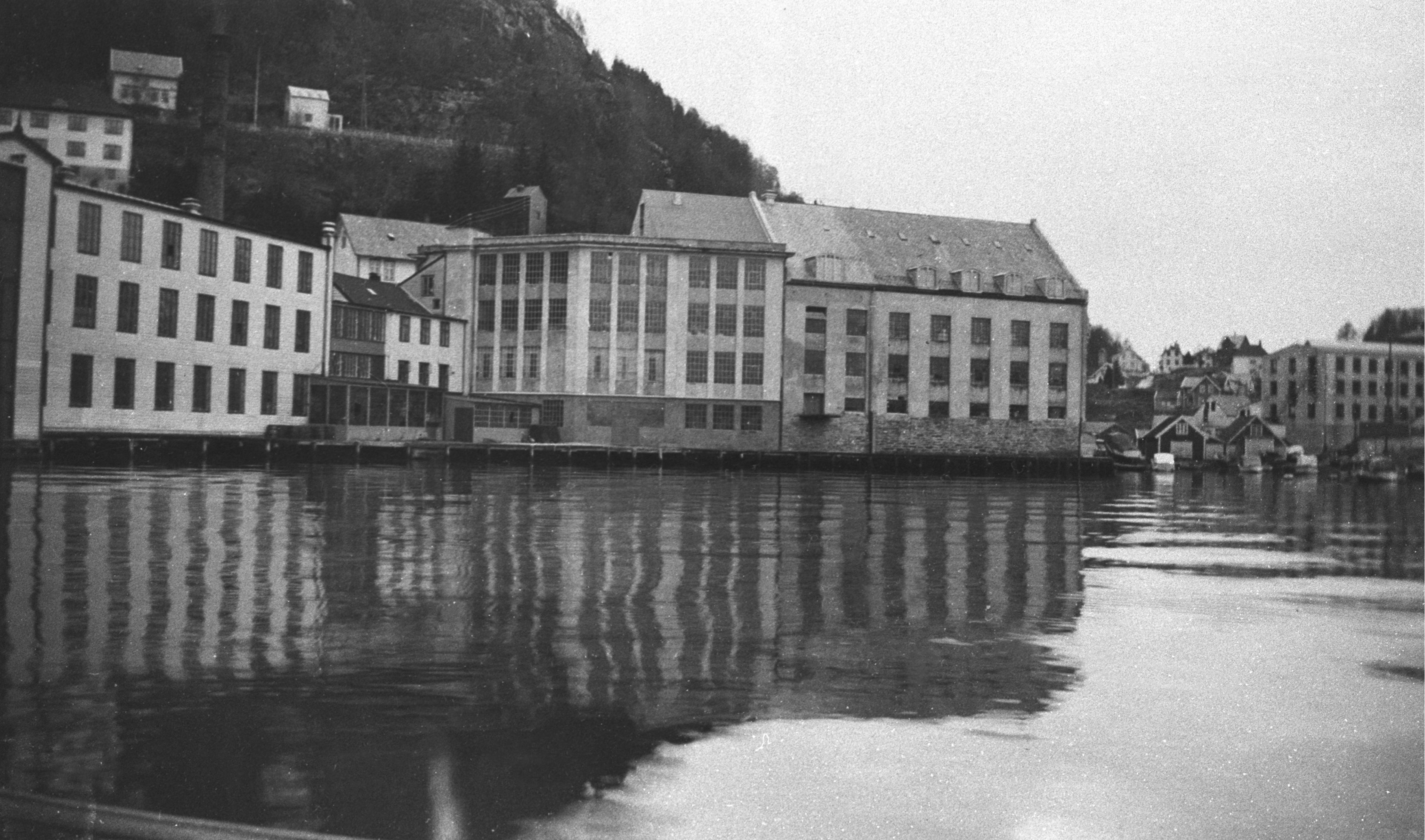 Salhus Tricotagefabrik omkring 1935